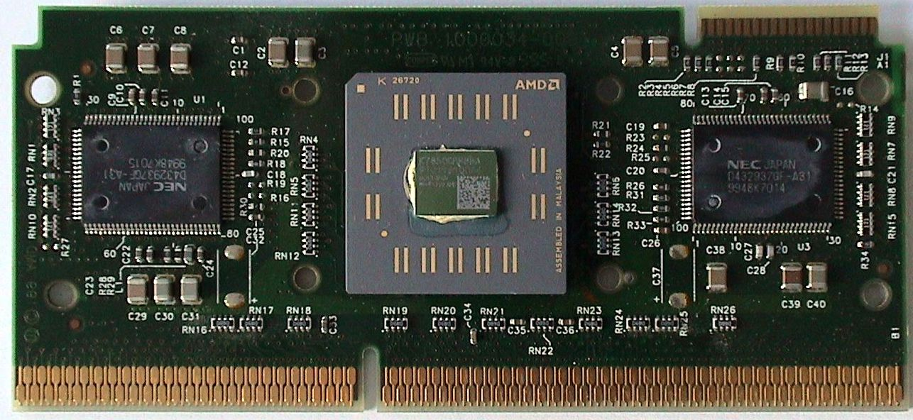 AMD Athlon (early version), fully compatible x86 implementation. Slot-A Athlon (650 MHz)